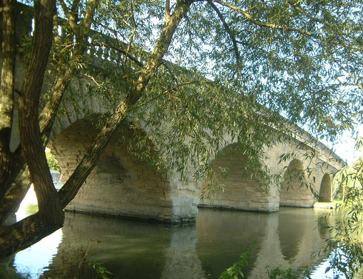 Swinford Toll Bridge, near Eynsham, Oxfordshire